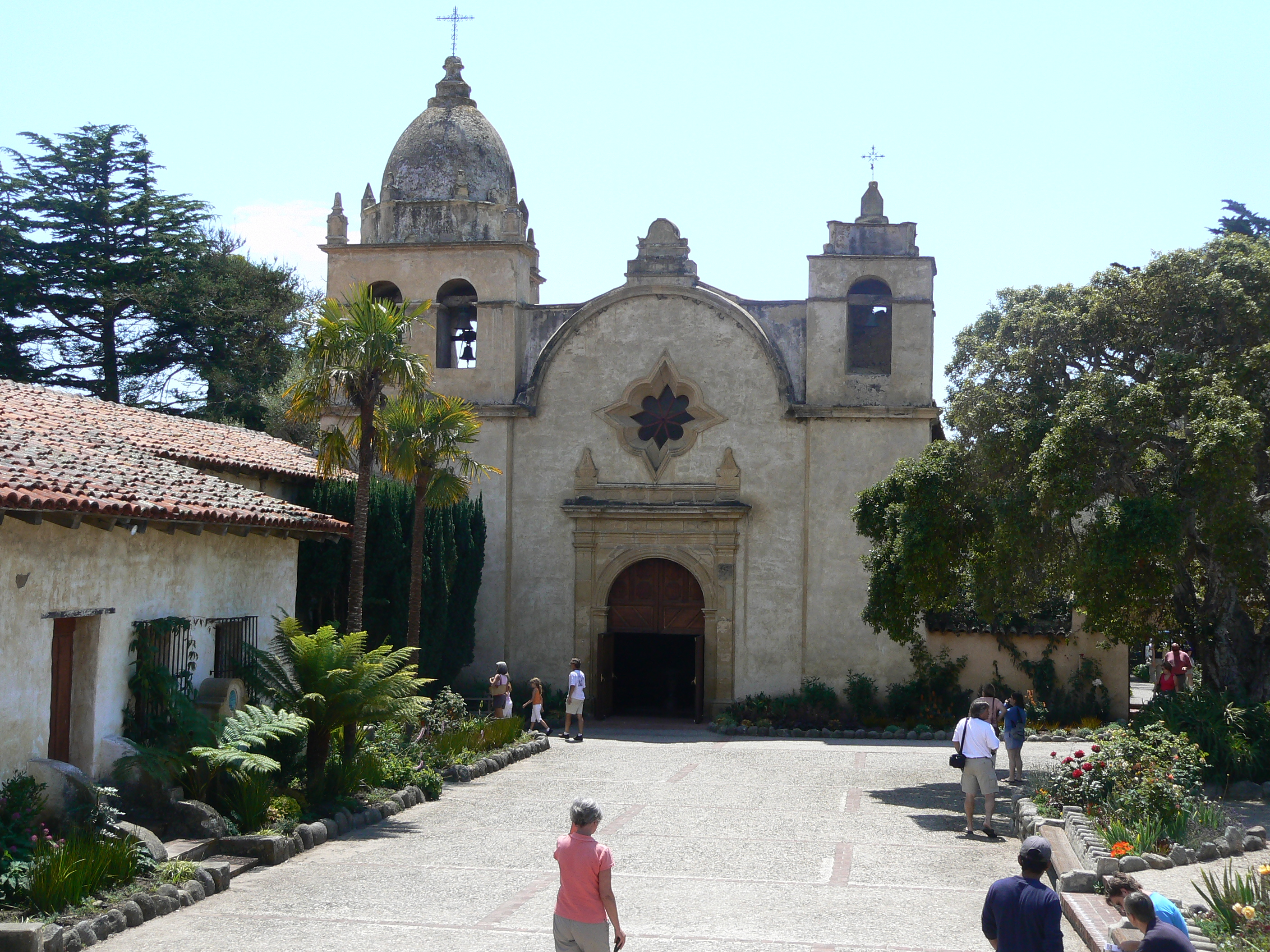 Monterey mission california main chapel from outside